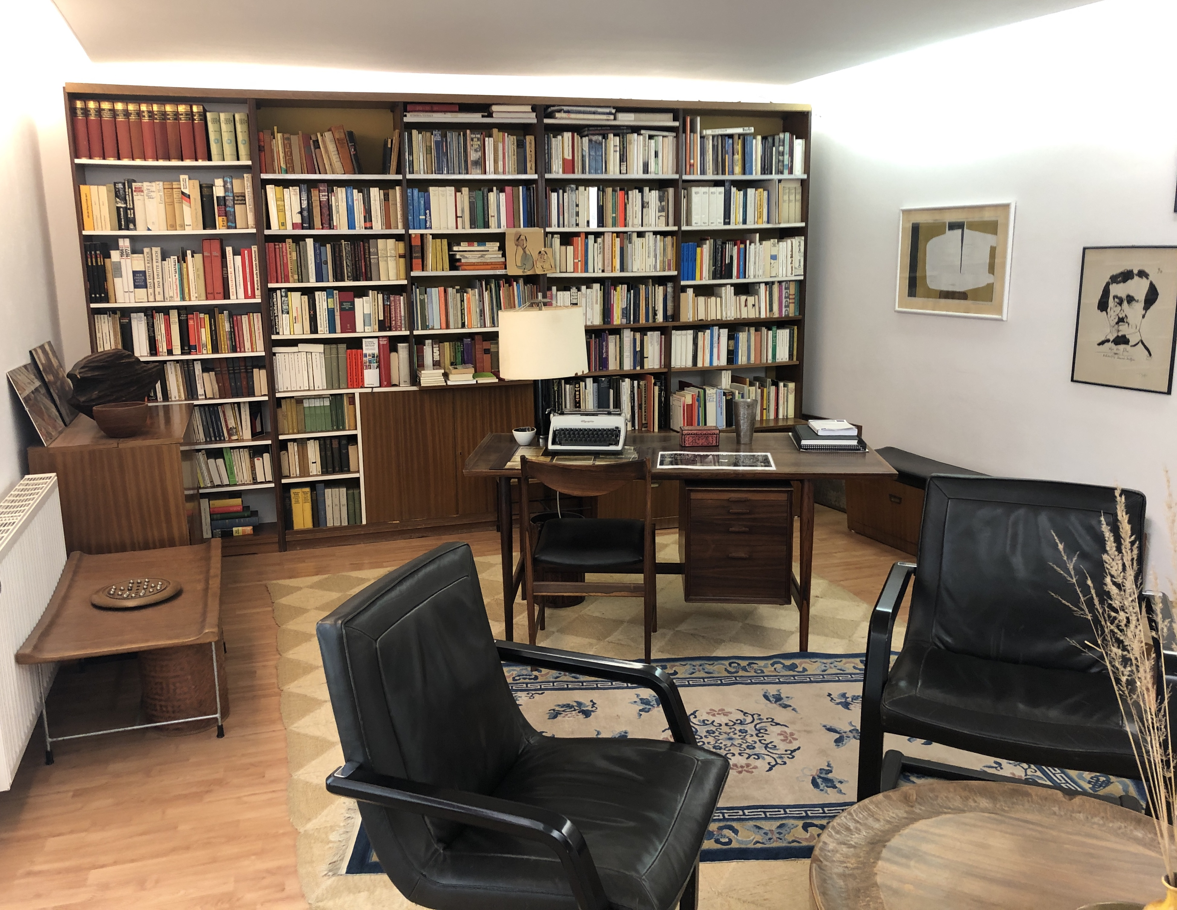 Hans-Werner Richter's study in the Hans-Werner-Richter-Haus, Usedom